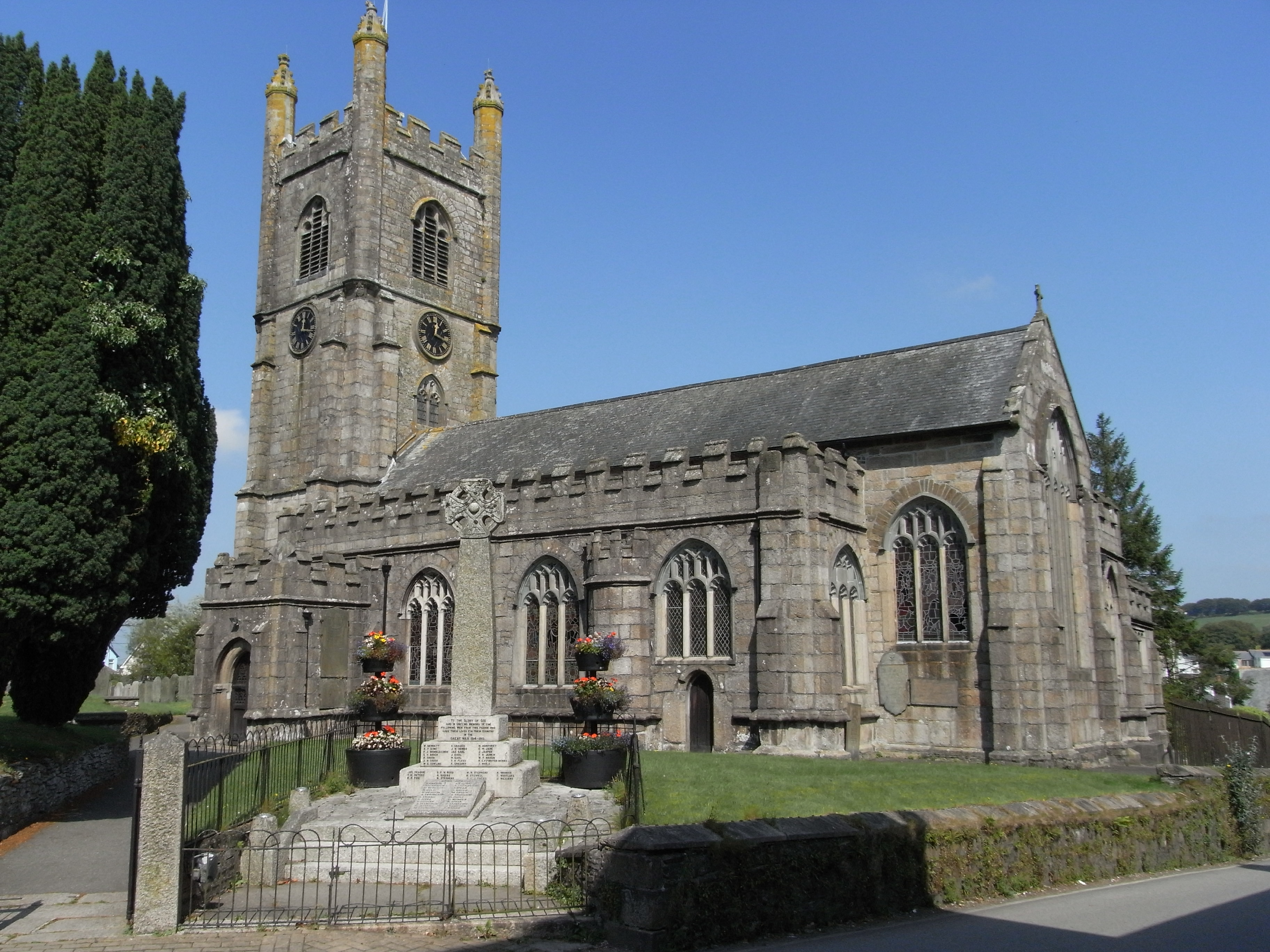 St Mary's Church, Callington, Cornwall. Viewed from SE, Sept. 2011.